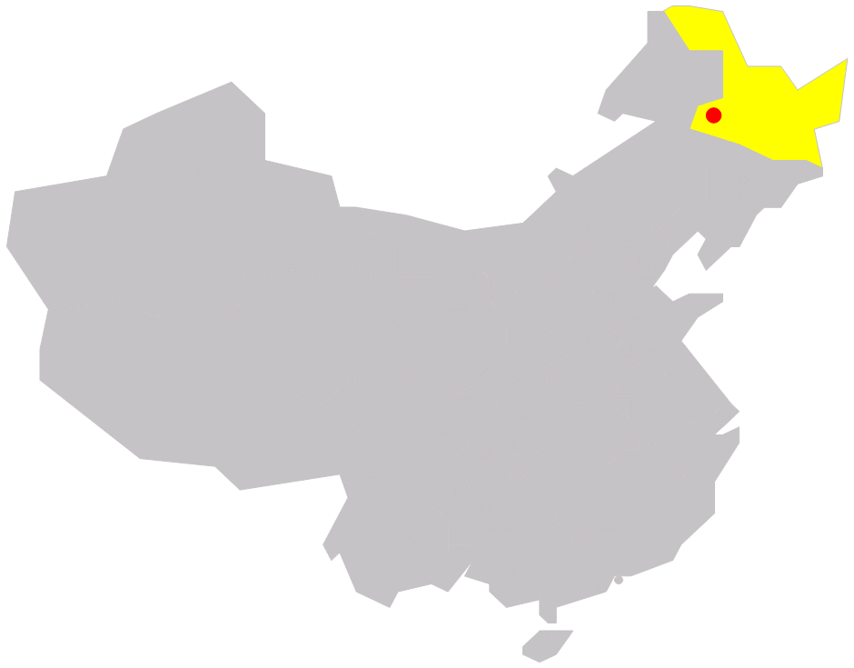 position of Qiqihar in China